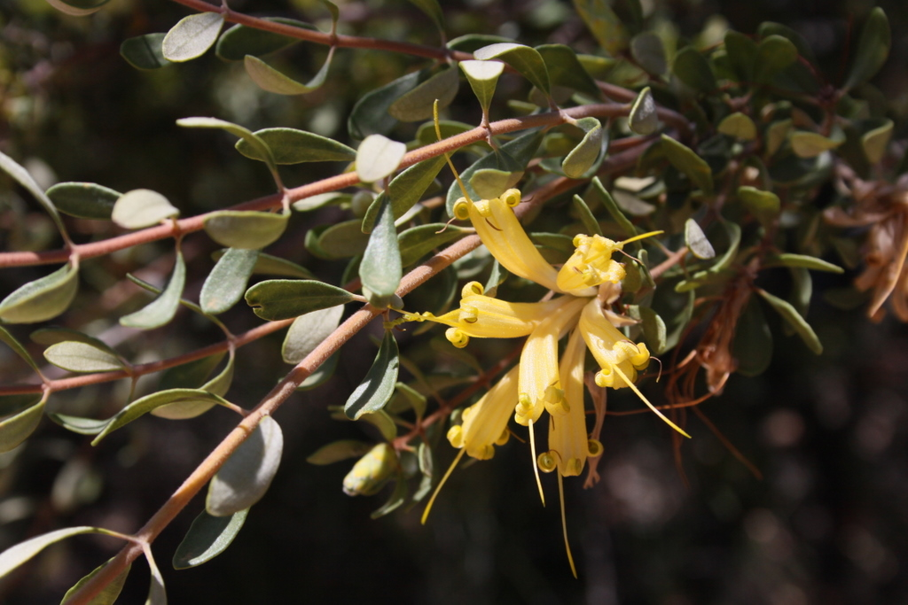 Yellow variety of Lambertia inermis - Noongar, Chittick - taken at Stirling Range NP.